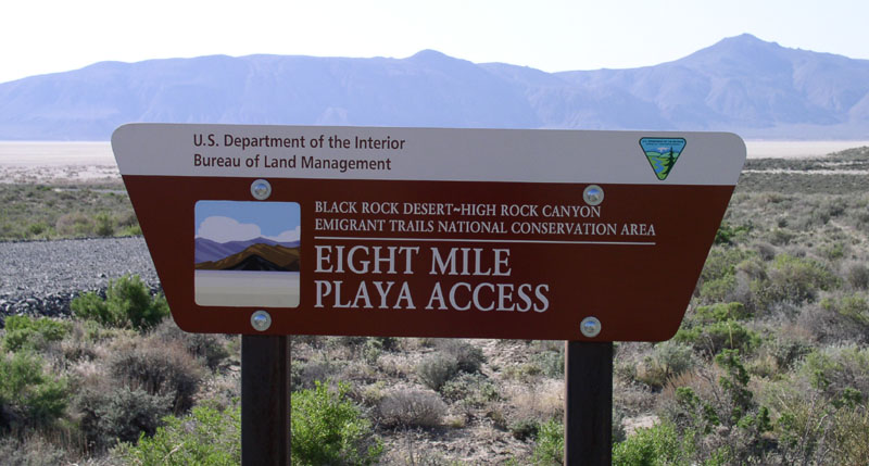 Bureau of Land Management sign announcing the eight mile playa entrance to the Black Rock Desert — Nevada.